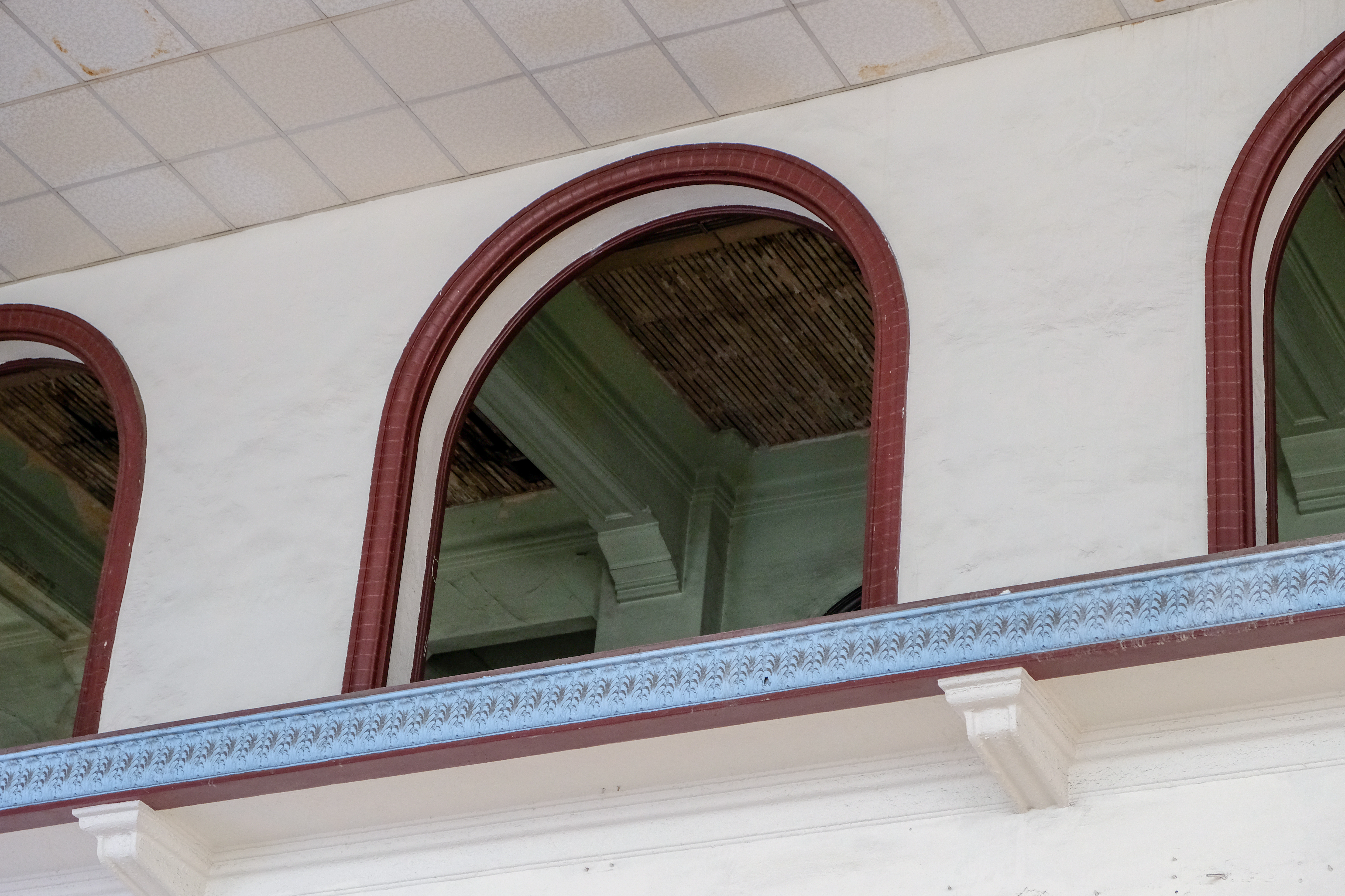 2F Arcade of TRA Tainan Station